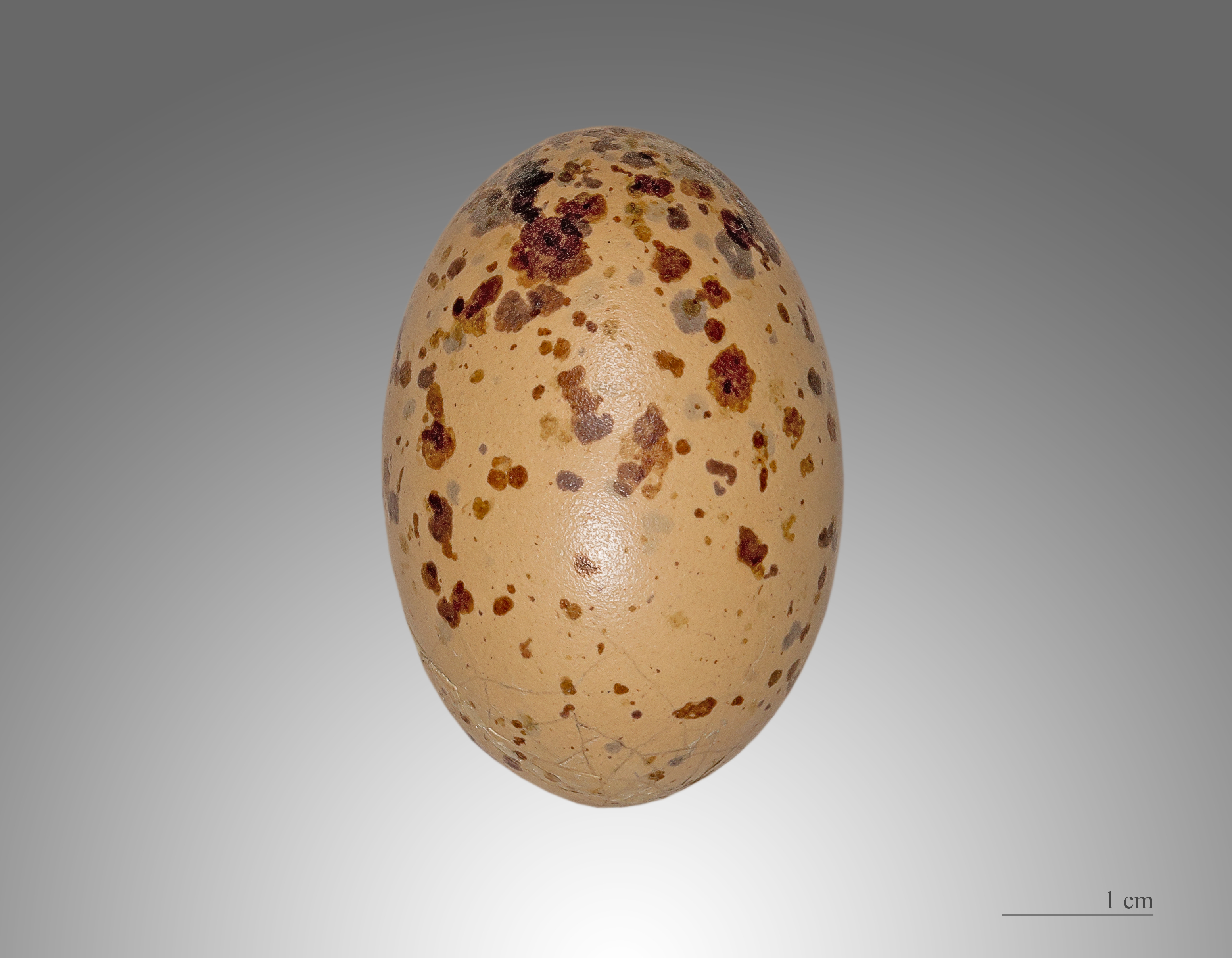 Egg of Pin-tailed Sandgrouse. Collection of Jacques Perrin de Brichambaut Locality: Gard, France